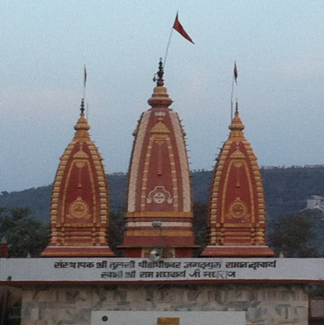 The three peaks of the Kanch Mandir in Tulsi Peeth, Chitrakoot, Satna, Madhya Pradesh.